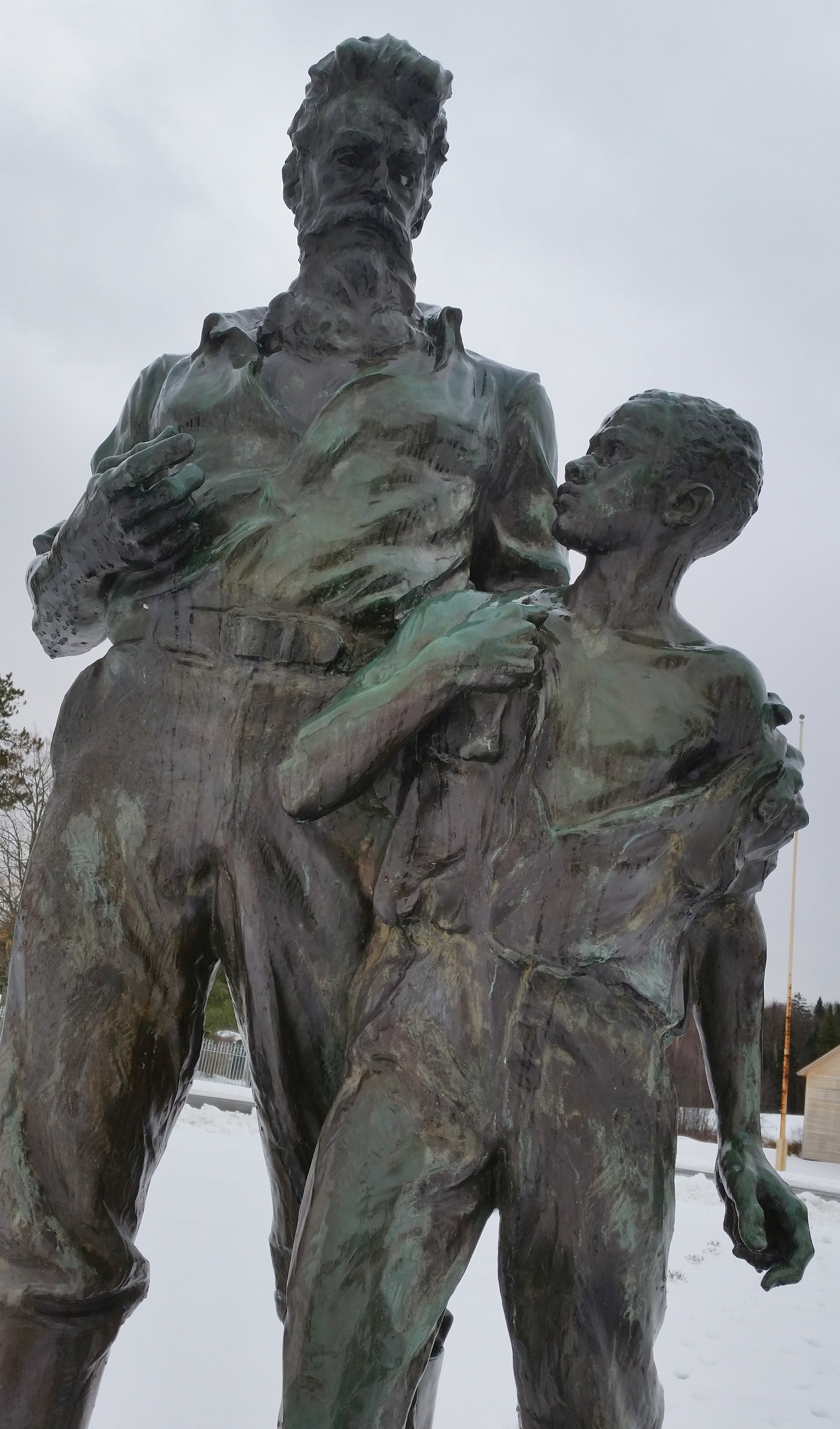 Larger than lifesize, bronze sculpture of John Brown and African-American youth, by Joseph P. Pollia. Installed at John Brown's Farm, near Lake Placid, New York, 1935. Commissioned by the John Brown Memorial Association.